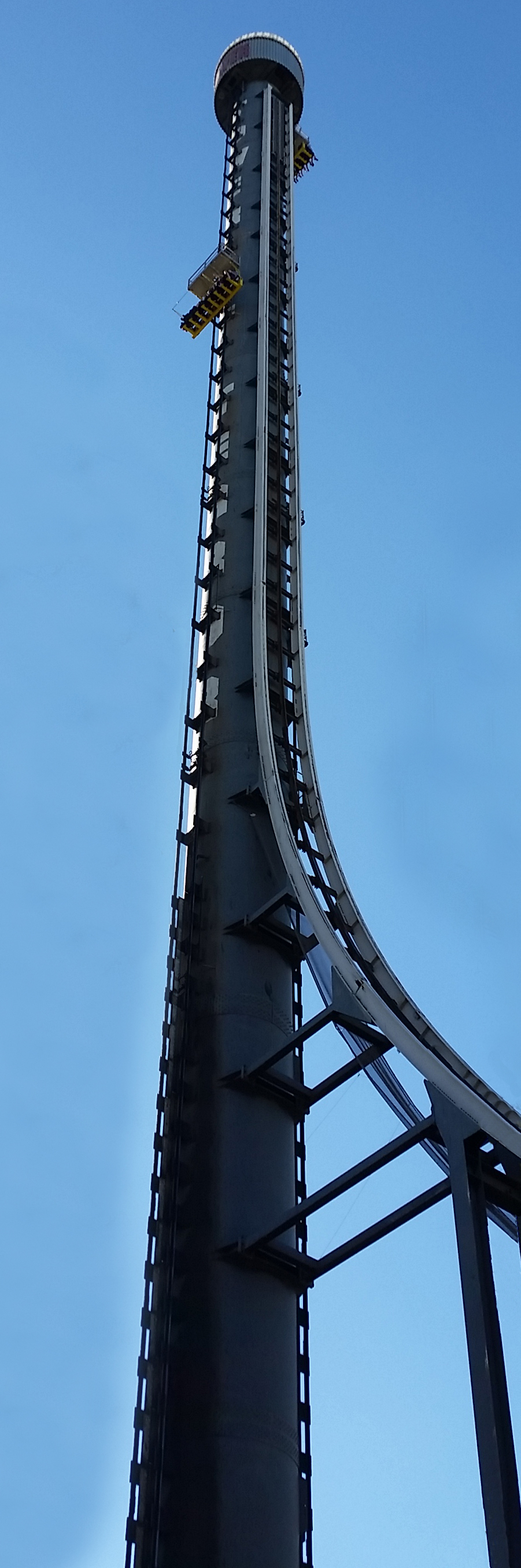 Dreamworld Tower as of the 30th of July 2016.